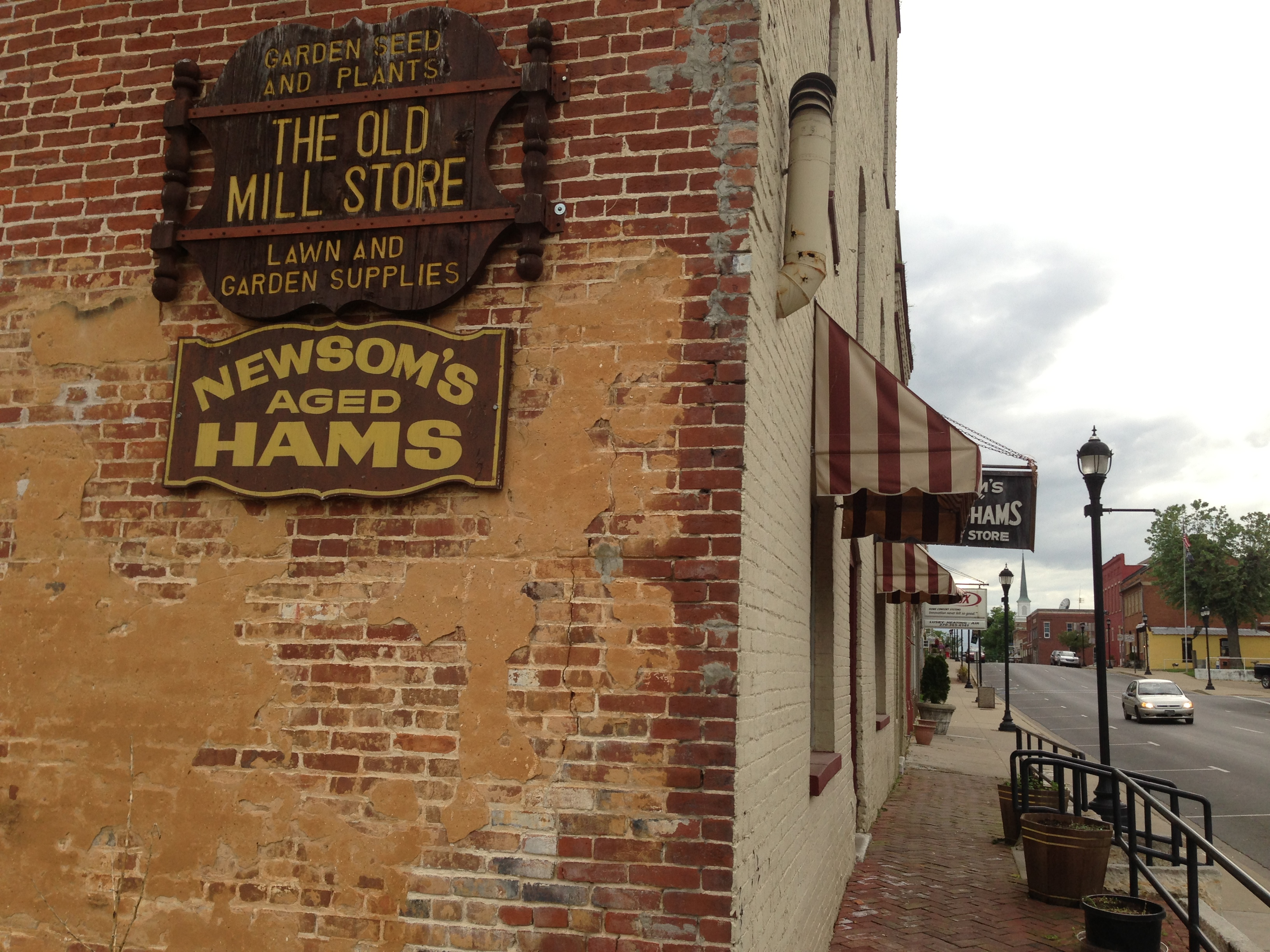 Nancy Newsom's Hams are internationally recognized.